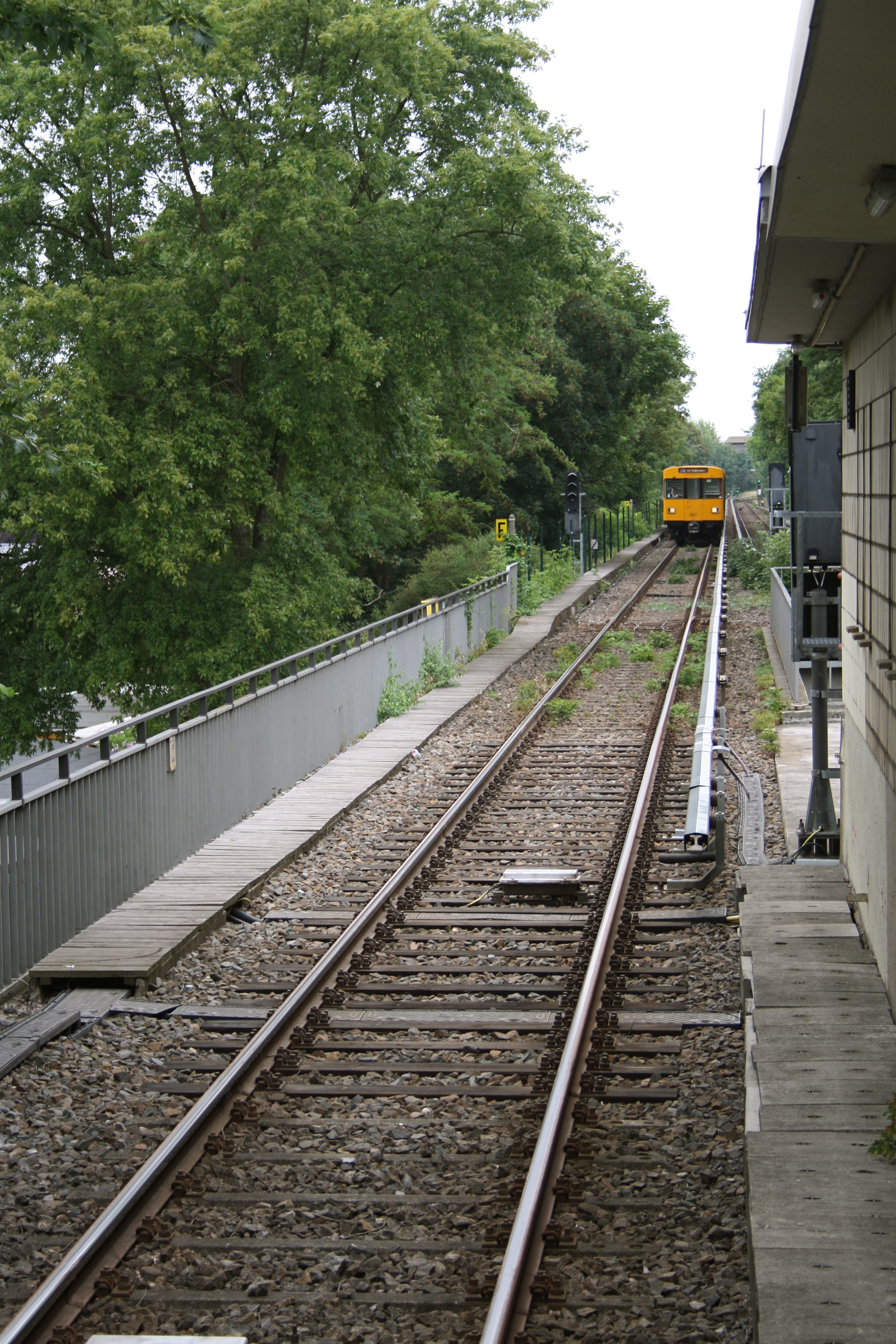 U-Bahn bridge over Otisstraße in Berlin-Reinickendorf